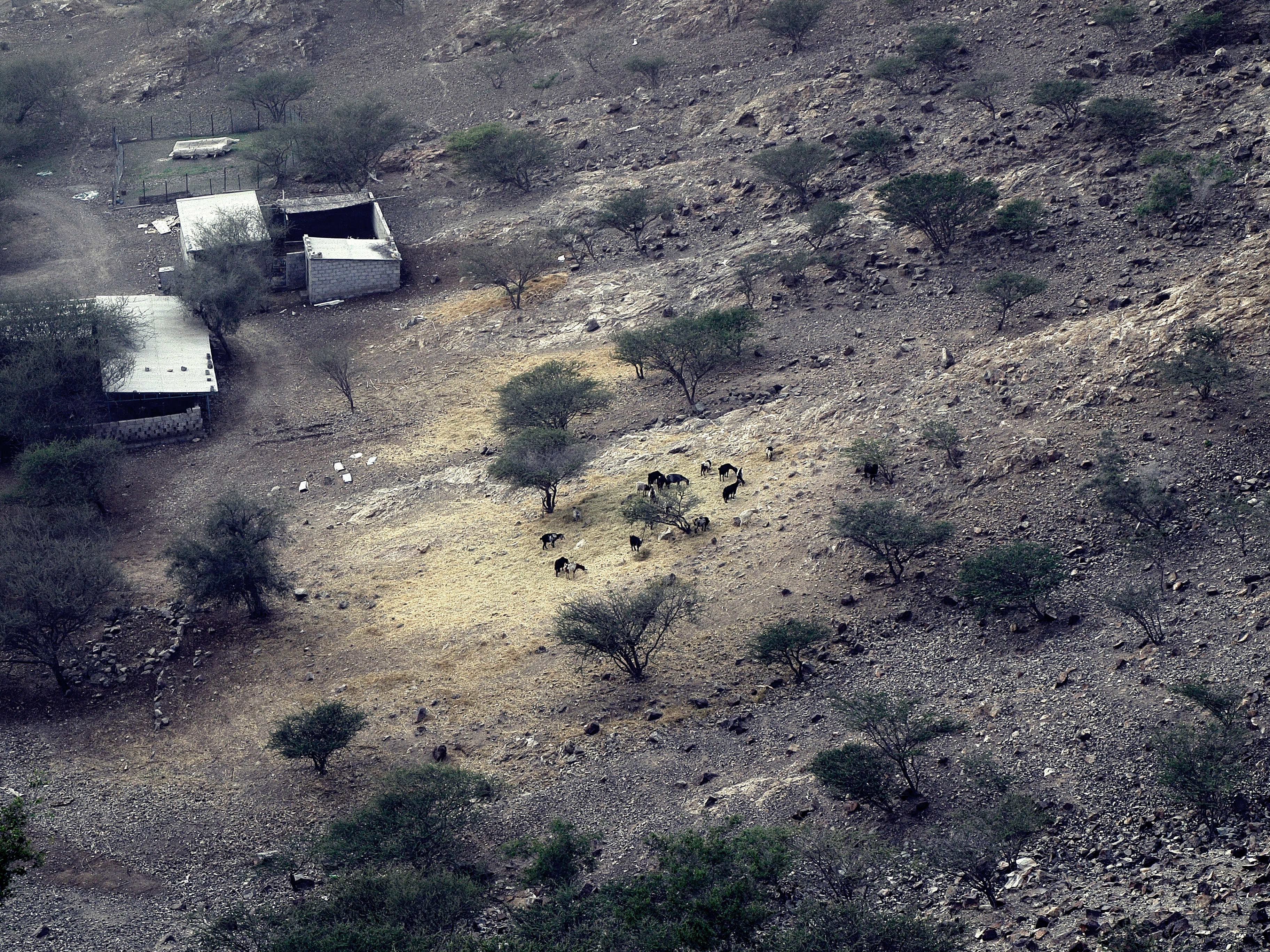 Ranch in the hills of Fujairah, United Arab Emirates.